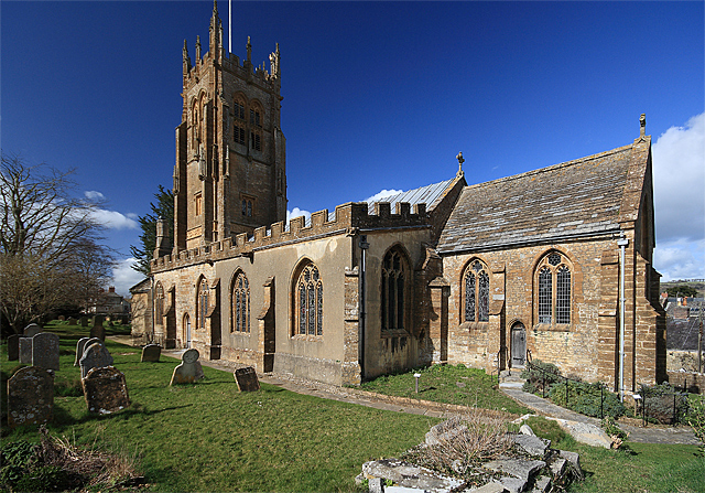 St Mary's Parish Church - Beaminster Dating from the C13 and C15, its best feature is its magnificent early C16 west tower. The tower served a grim purpose after the Monmouth Rebellion of 1685, when the butchered quarters of those executed were hung like carrion from its lofty heights.